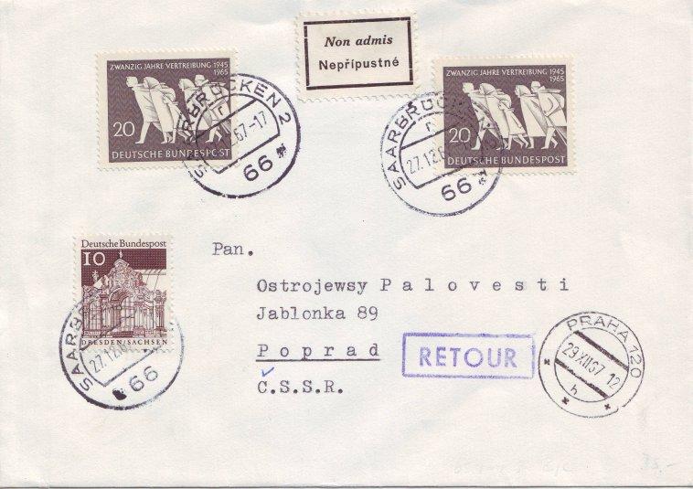 Letter from Saarbrücken to Poprad in Czechoslovakia, 27-12-1967. Returned to sender in Prague, 29-12-1967, because two stamps (Michel-Katalog-Nr: 479, dedicated to the German Heimatvertriebene) were not acceptable in Czechoslovakia. An example of the postal war accompanying the Cold War.